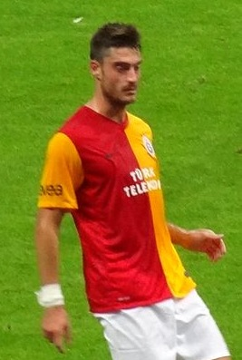 riera's first league game